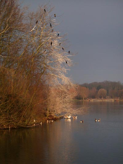 Cormorant trees. The island on Overton Lake at Ferry Meadows Country Park, Peterborough, is where local Cormorants go to rest and preen. The resulting guano can be seen on the right-hand side of the tree.